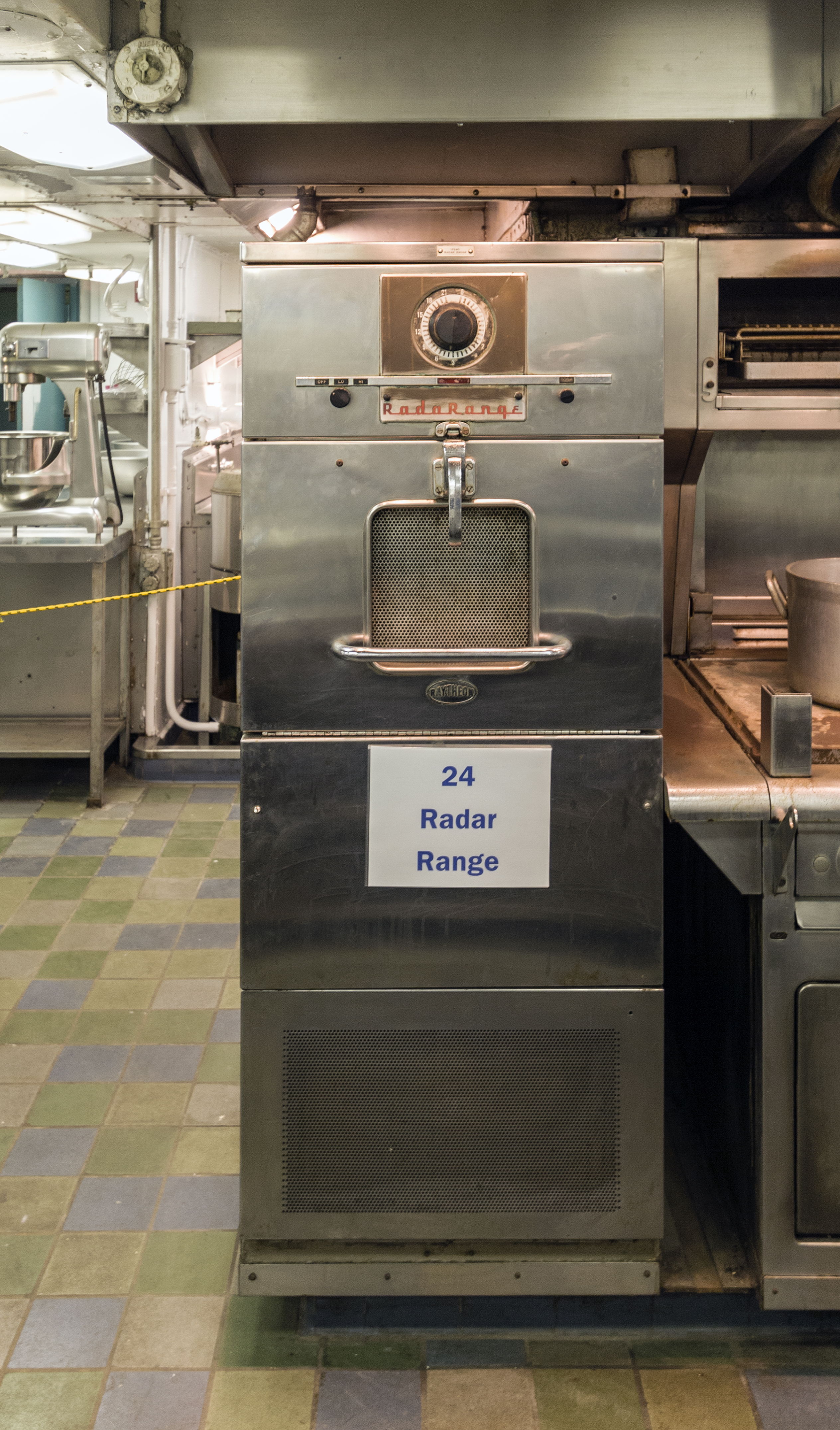 Raytheon microwave oven on the NS Savannah, Baltimore, Maryland, USA